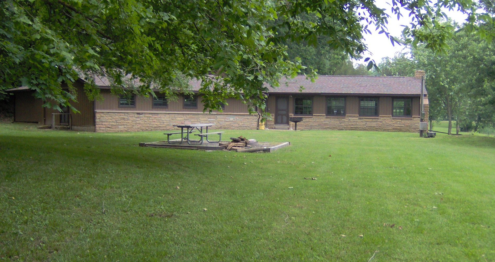 Overton Lodge at Standing Stone State Park in Overton County, Tennessee, in the southeastern United States. The lodge is situated on the east shore of Standing Stone Lake.